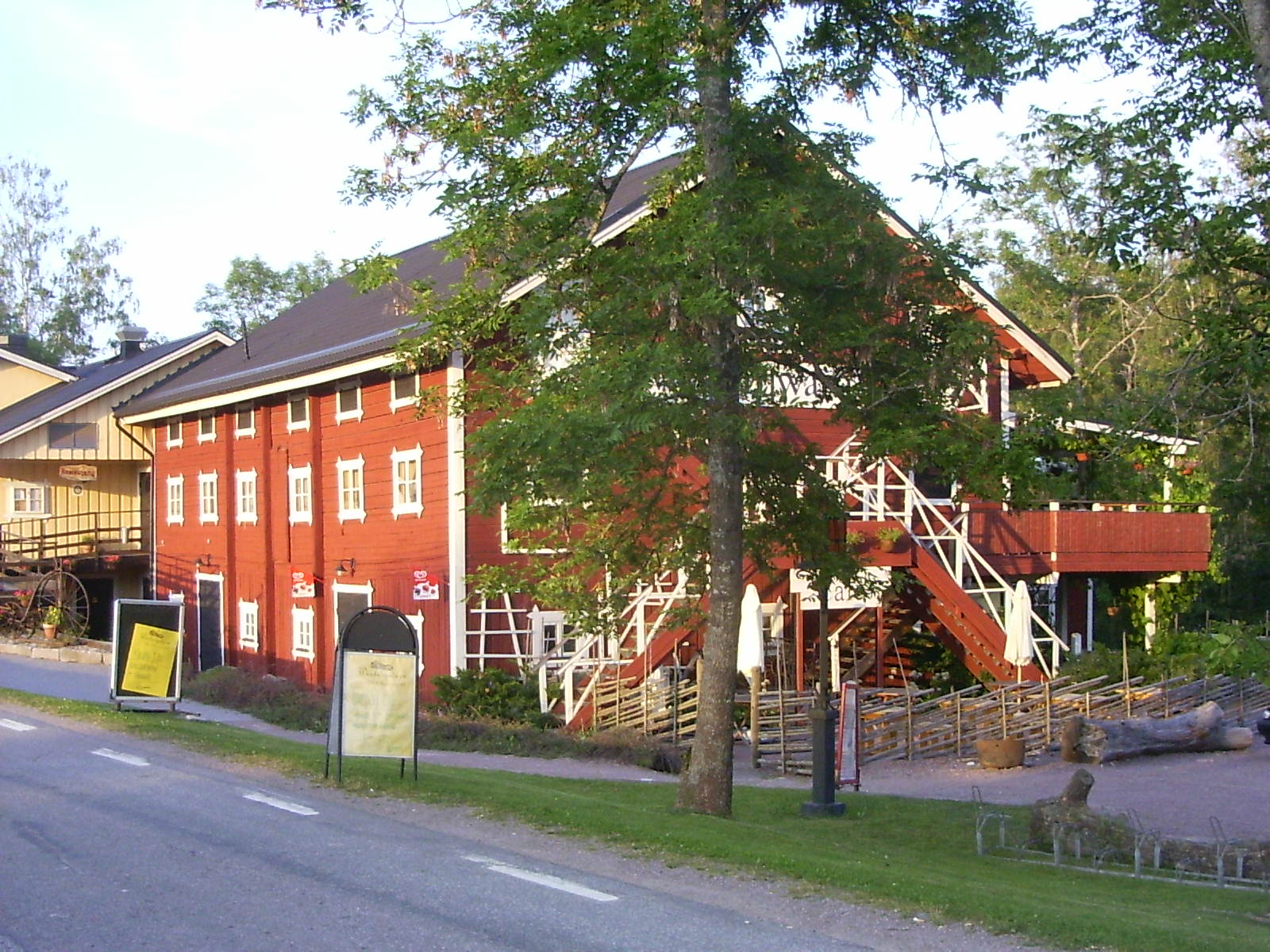 Västerkvarn mill museum